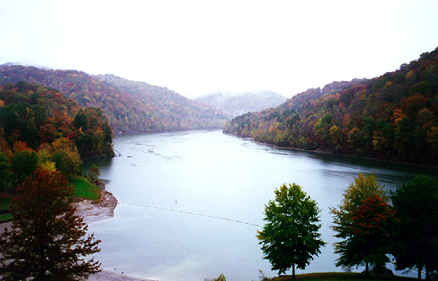 Nolin River Lake in central Kentucky, USA. The lake is impounded behind Nolin River Dam in Edmonson County. The lake covers parts of Edmonson, Grayson, and Hart Counties in Kentucky. The U.S. Army Corps of Engineers constructed the dam in 1963 for flood control on the Nolin River.